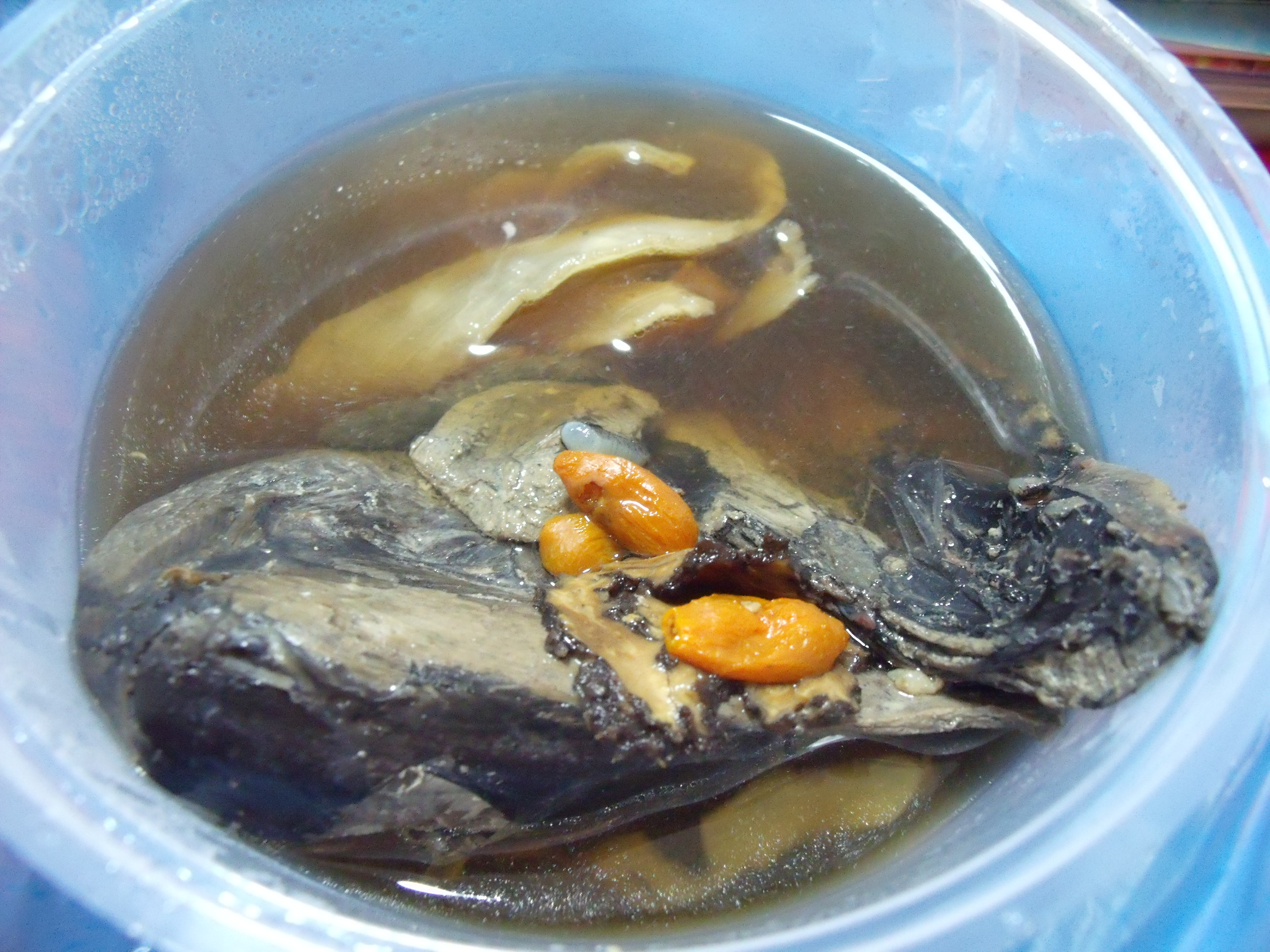 Silkie soup sold in Bukit Batok, Singapore